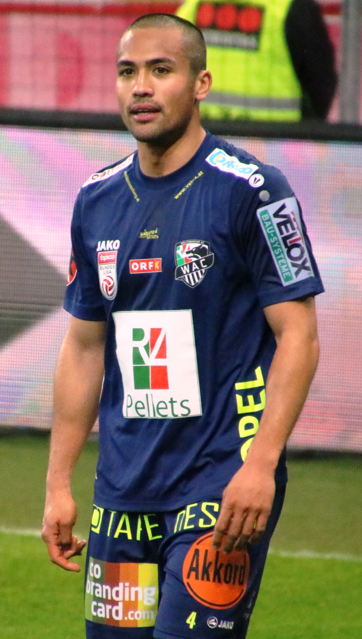 Bundesliga league match